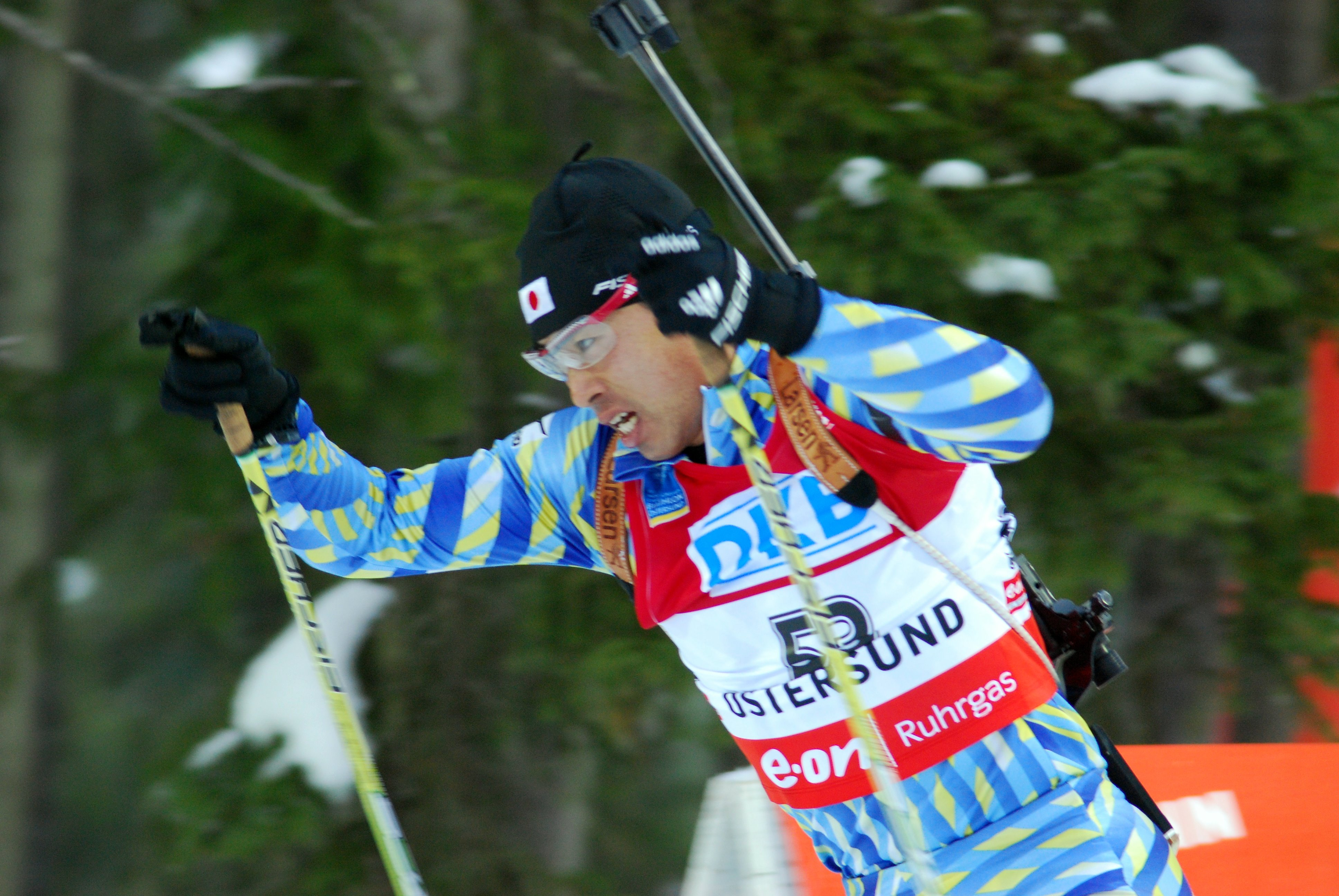 Japanese biathlete Hidenori Isa during the World Championships in Östersund 2008.